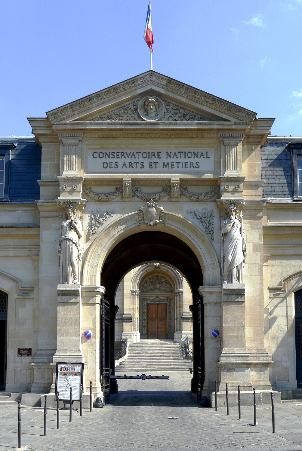 Conservatoire national des Arts et Métiers (main entrance) - Paris